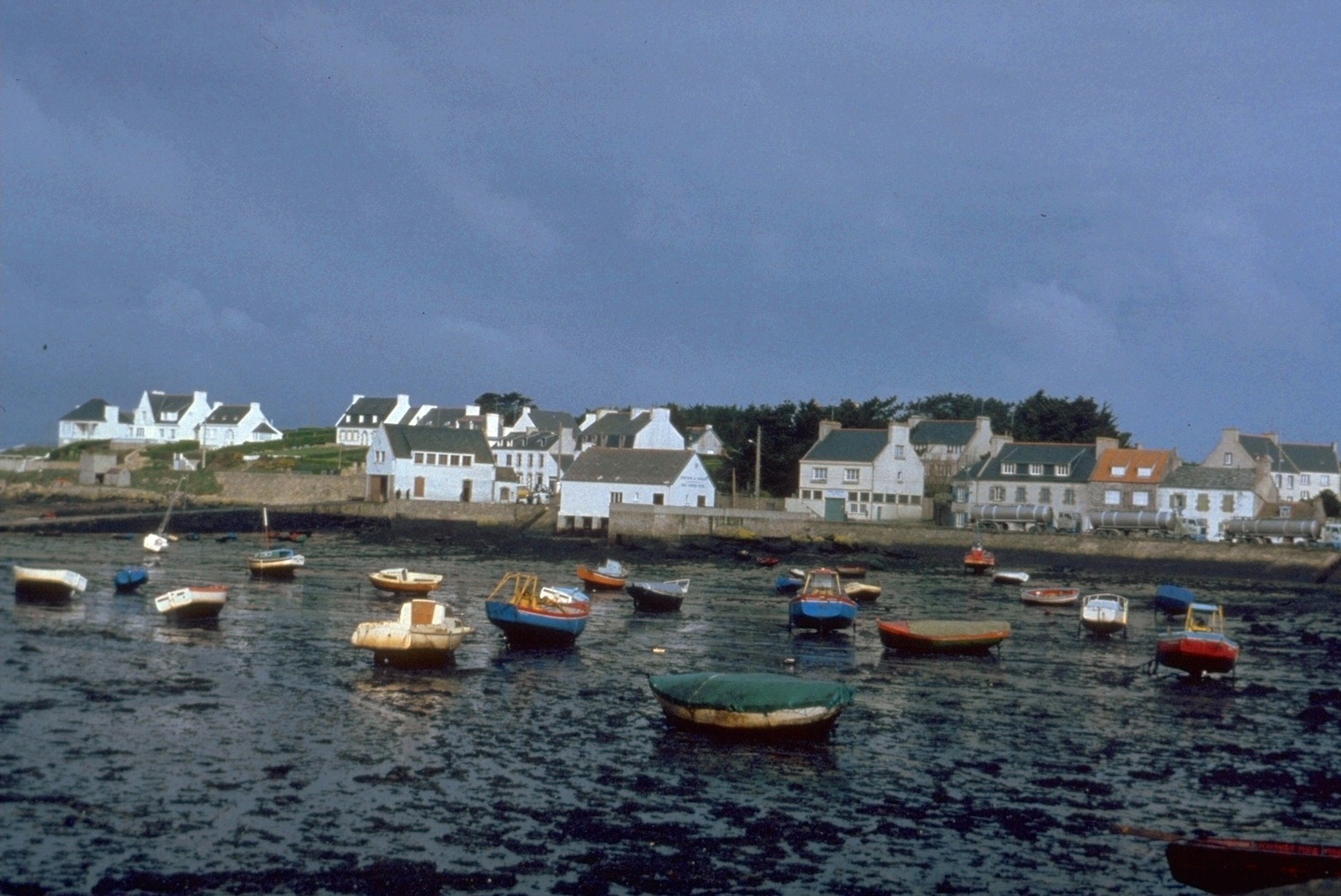 Impact of oil spill from Amoco Cadiz grounding